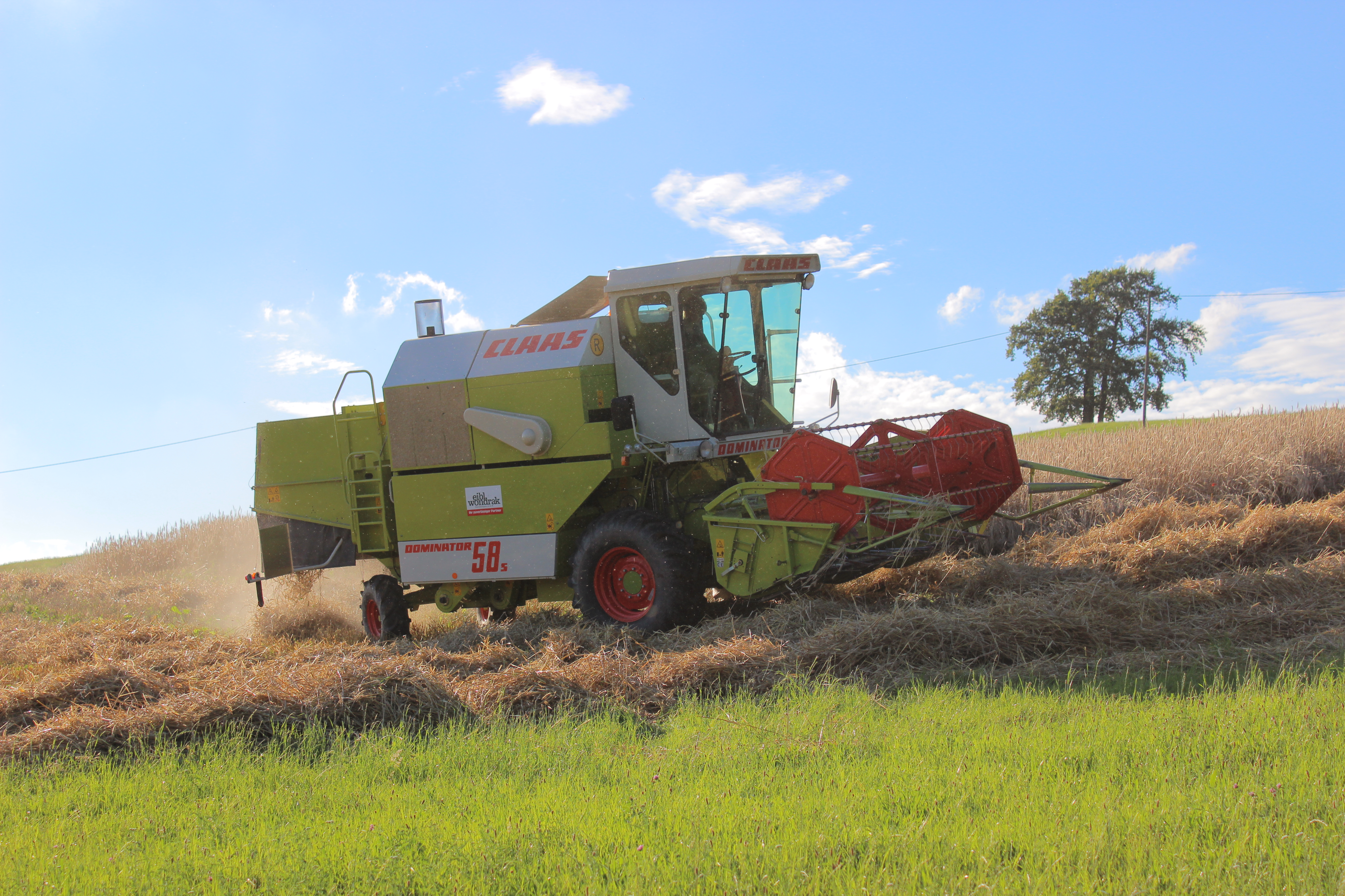 Claas Dominator 58 S harvesting wheat in the District of Freistadt, Oberösterreich.